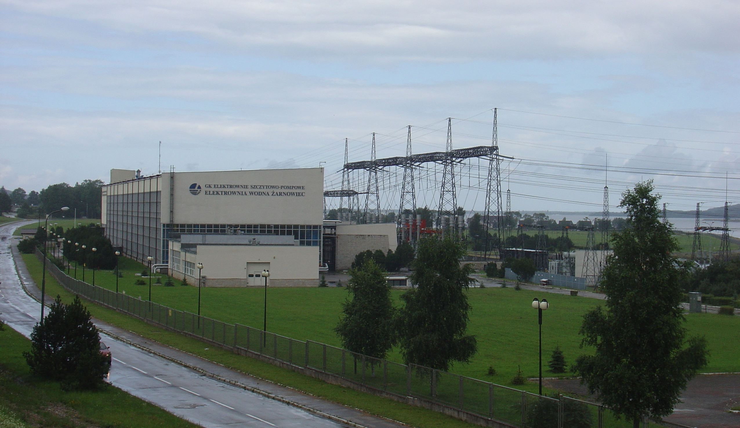 Żarnowiec pumped-storage station